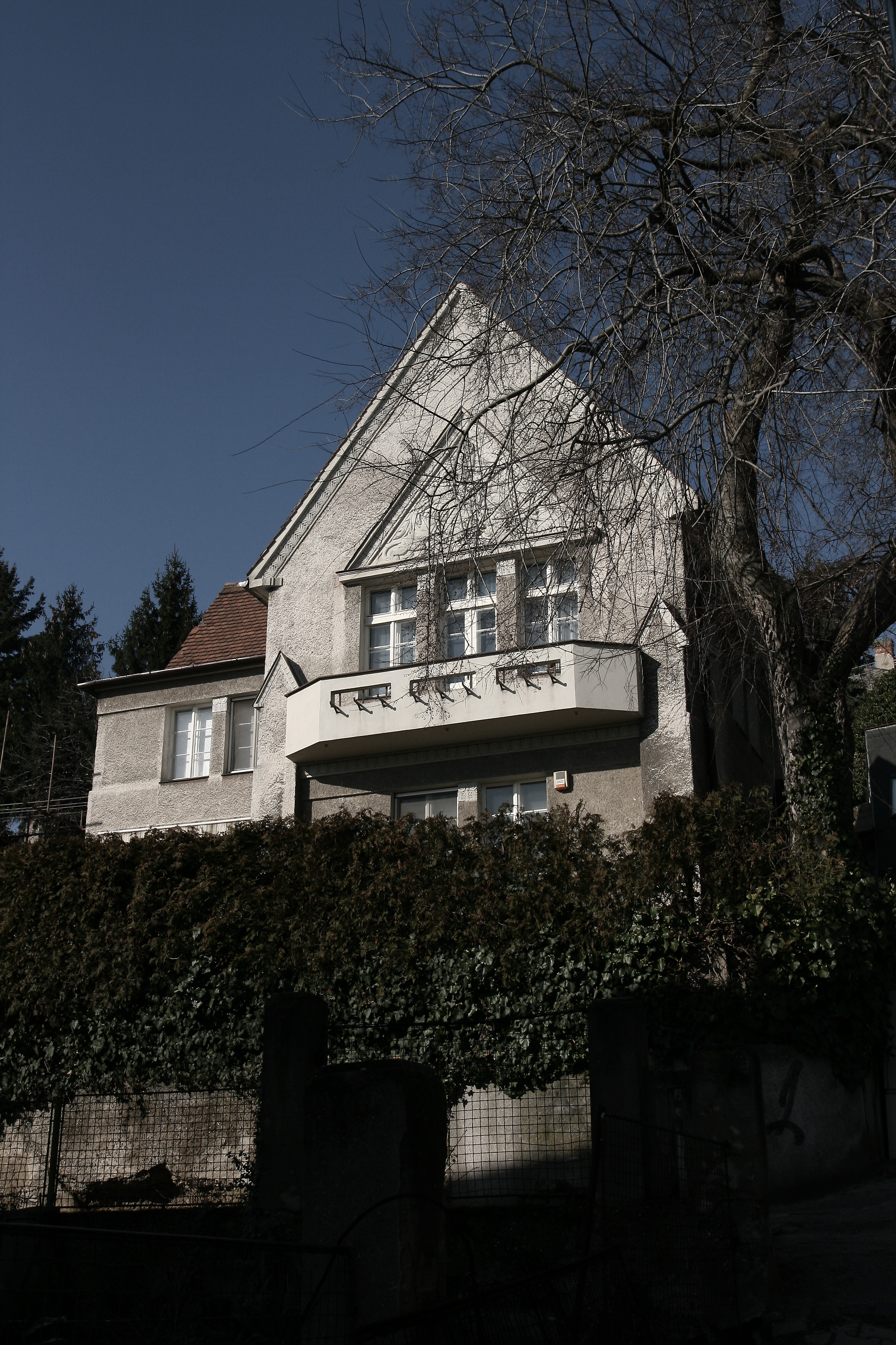 Dušan Jurkovič's family villa in Bratislava, Slovakia. Art deco building from 1924, his own work.